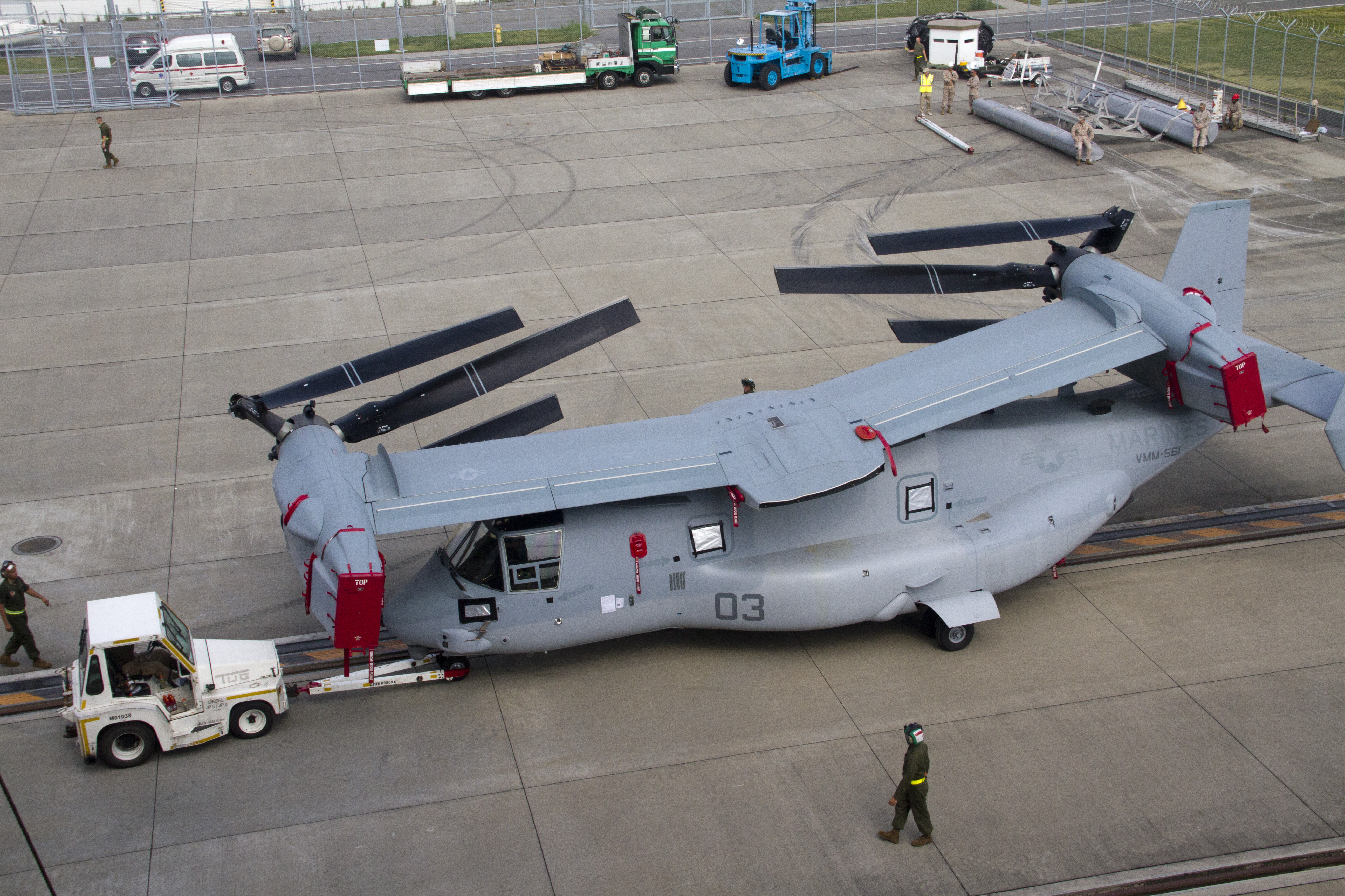 A Marine Medium Helicopter Squadron 265 Marine uses a utility tractor to guide a MV-22 Osprey off the cargo ship Green Ridge at the Marine Corps Air Station Iwakuni harbor here July 23, 2012. This marks the first MV-22 Osprey aircraft deployment to Japan and a milestone in the Marine Corps' process of replacing CH-46E helicopters with the MV-22 Osprey, a highly-capable, tilt-rotor aircraft which combines the vertical capability of a helicopter with the speed and range of a fixed-wing aircraft.